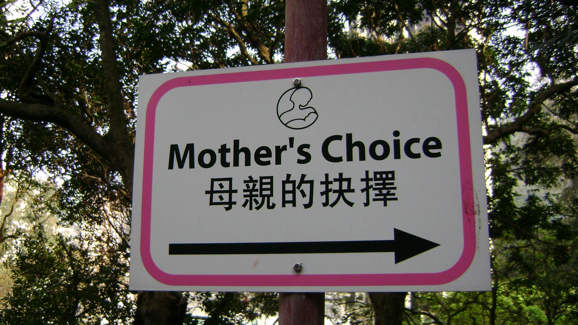 This is a sign directing visitors of Hong Kong's Mother's Choice to the office. The sign is open to public view on Kennedy Road, Hong Kong.